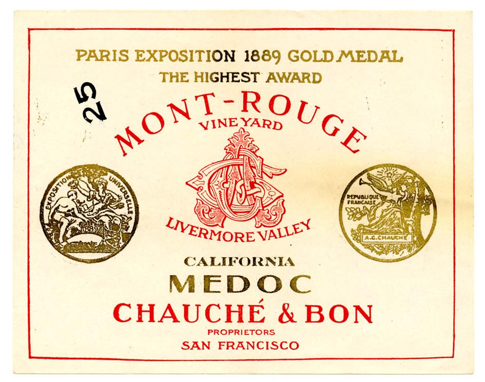 Repository: California Historical Society Collection: California wine label and ephemera collection Date: after 1889. The winery was founded in 1884 by Adrien Georges Chauché (1834–April 22, 1893). It burnt down in the 1930s. Source: Adrien G. Chauche General Note: Paris Exposition 1889 Gold Medal. Call Number: Kemble Spec Col 07 Digital Object ID: Kemble Spec Col 07_021.jpg Preferred Citation: Wine label, Mont-Rouge Vineyard, California Medoc, California wine label and ephemera collection, Kemble Spec Col 07, courtesy, California Historical Society, Kemble Spec Col 07_021.jpg.